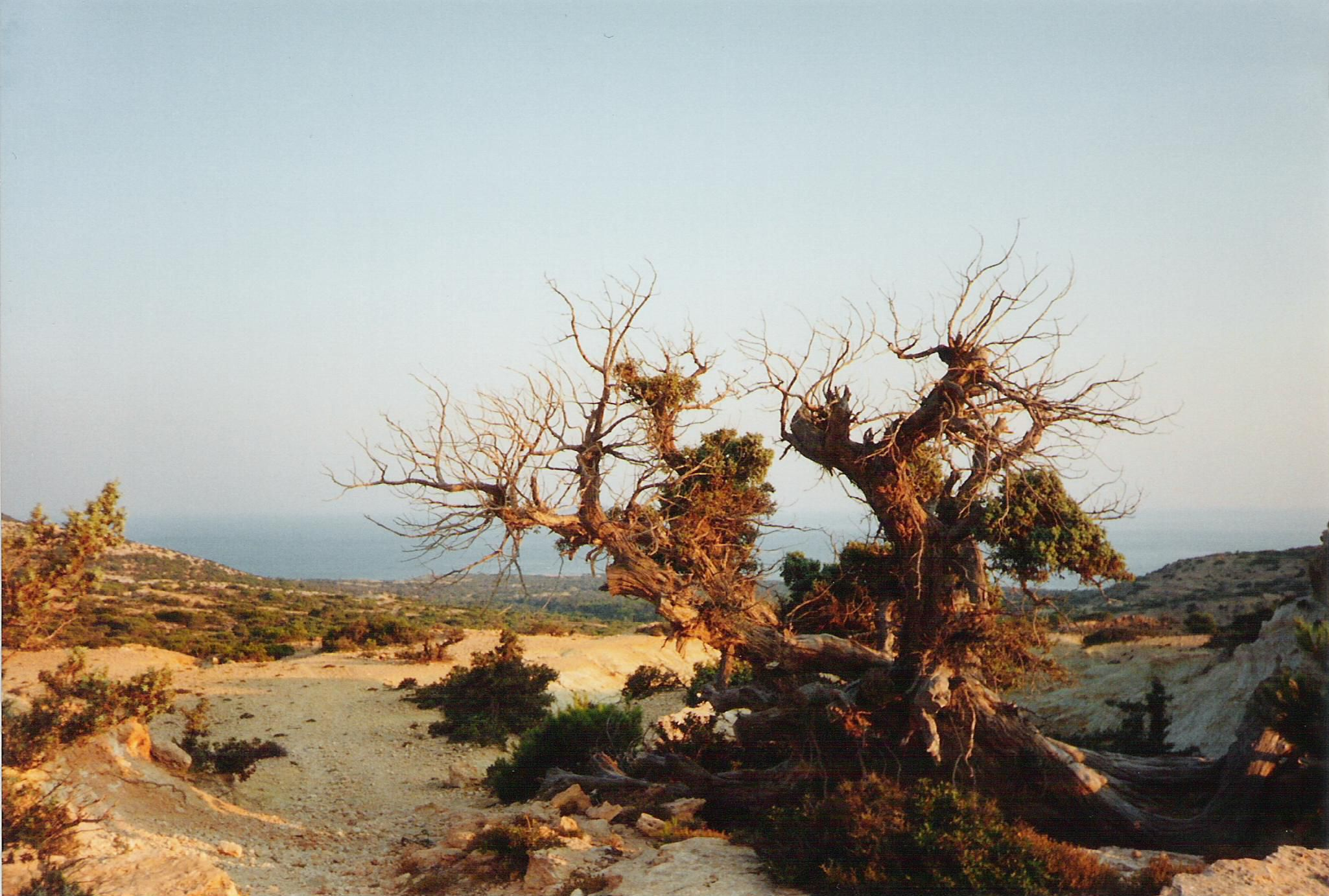 Juniper on Gavdos Island, Greece